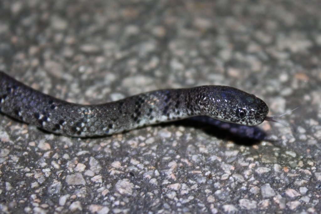 Pareas margaritophorus head taken in Pat Sin Leng Country Park.